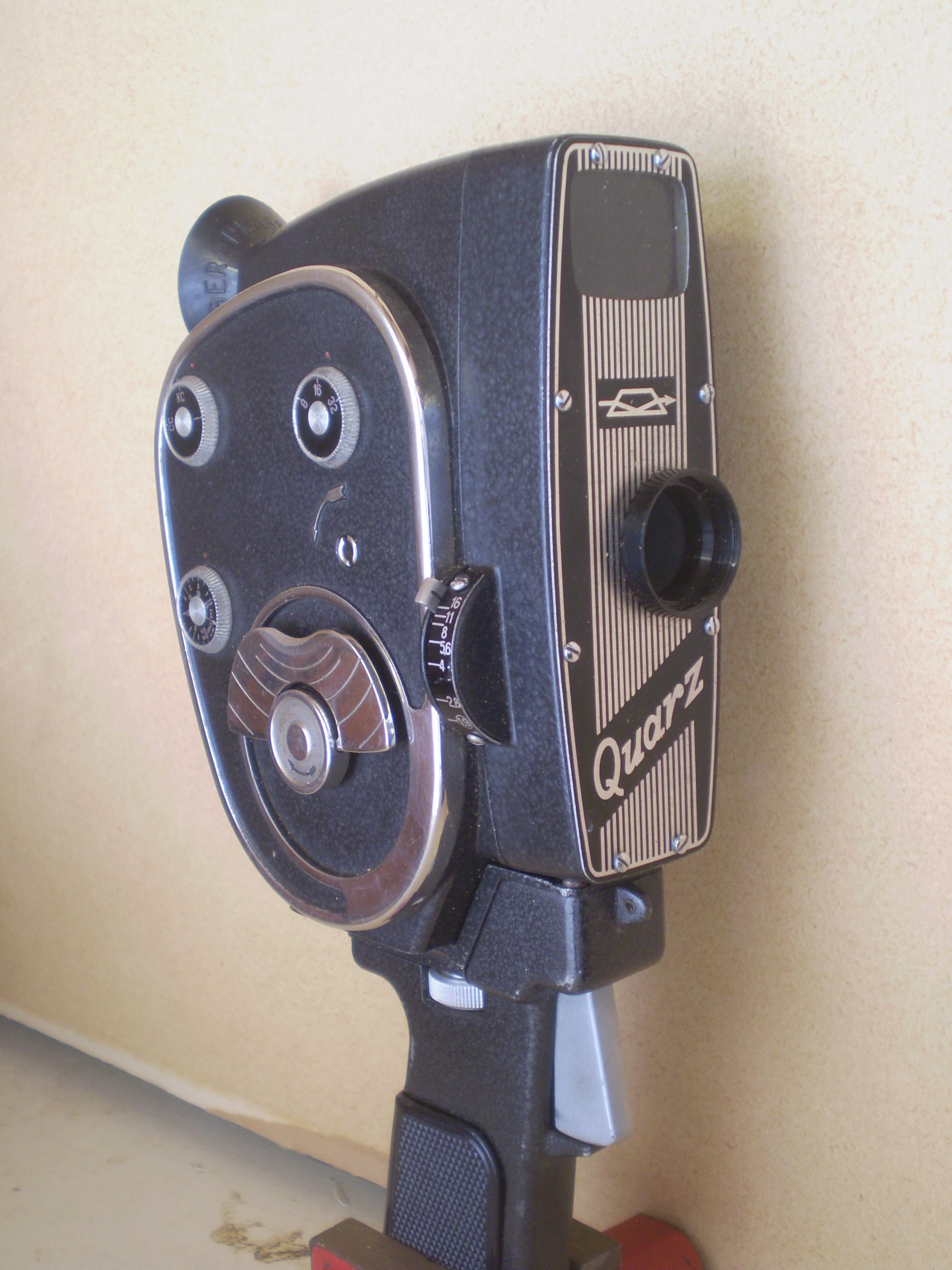 Quarz-M camera